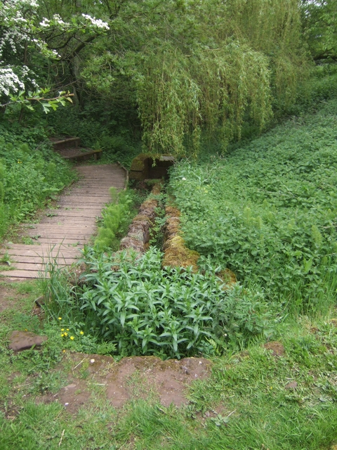 St Kenelm's Spring (Source of the River Stour) The spring is immediately below St Kenelm's Church on the slopes of the Clent Hills. The River Stour flows for 25 miles though the southern edge of the Black Country via Halesowen, Cradley, Lye, Stourbridge and Kidderminster to meet the River Severn at Stourport on Severn. The river was important in the beginning of the Industrial Revolution providing power for forges and mills. It is said that in the 17th century this was the most hard worked river in the country.